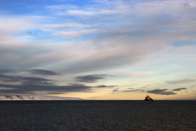 Chaun bay, Chaunskaya guba, Chukotka, Chukchi region This image is related to the protected area of Russia number 8710040